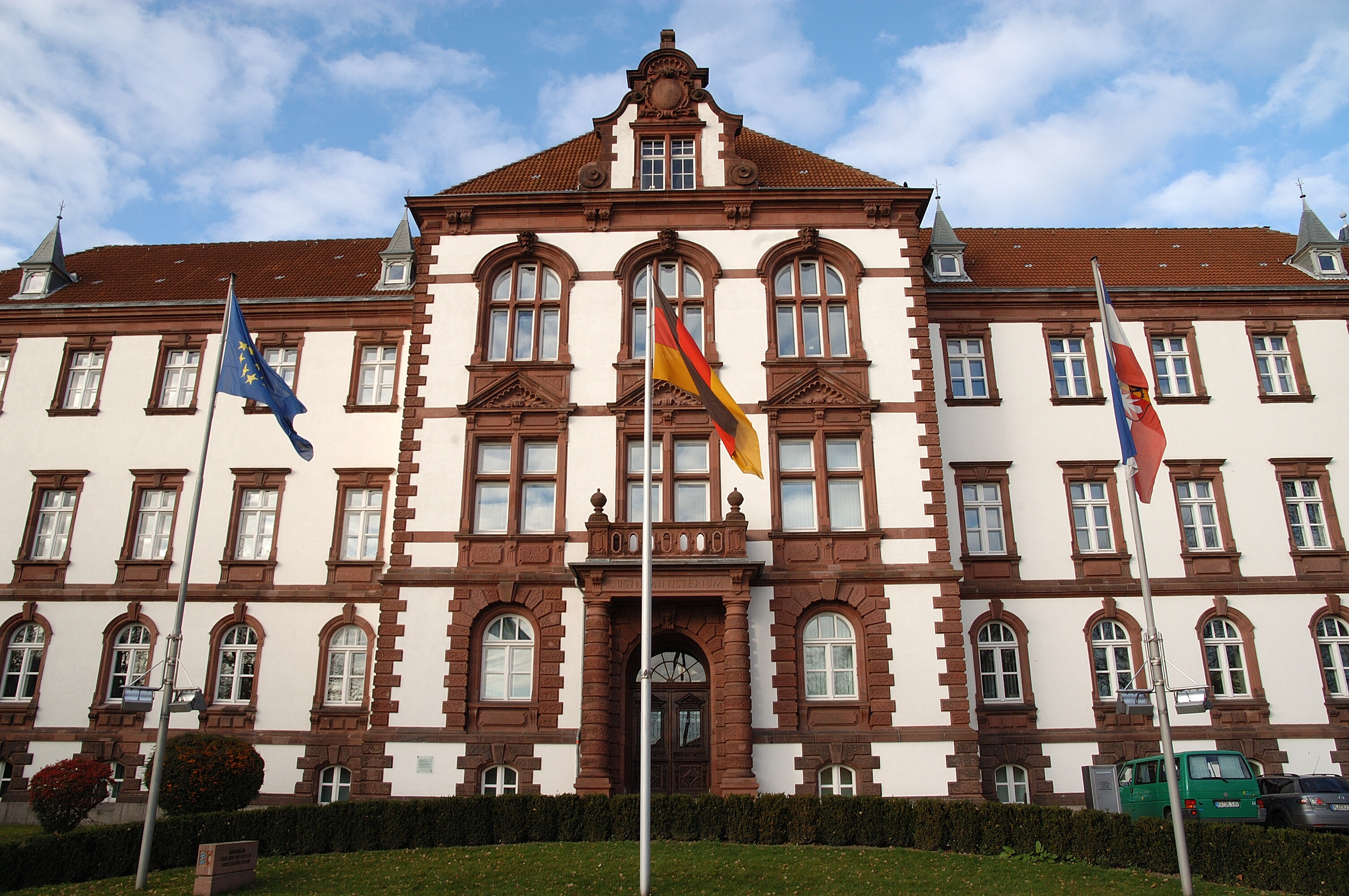 Ministry of Justice Schleswig-Holstein in Kiel, Germany